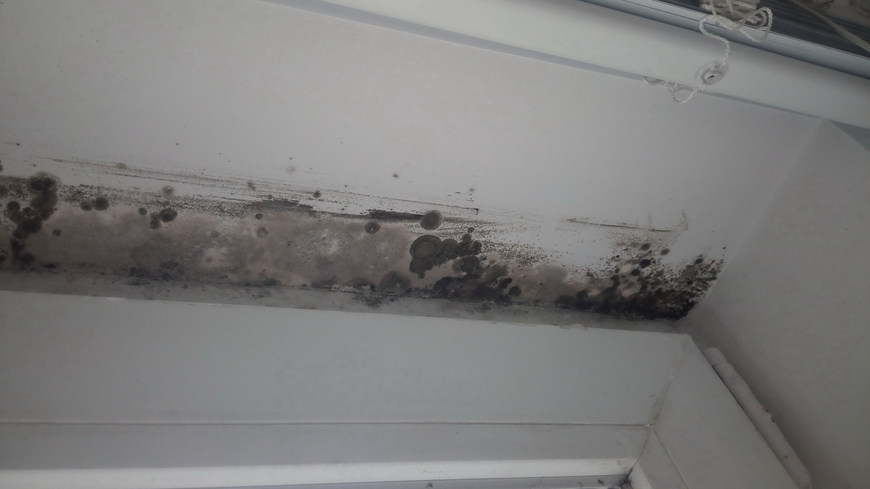 Indoor mold on the head jamb of the inner window in multi storey building. The mold grew during winter.